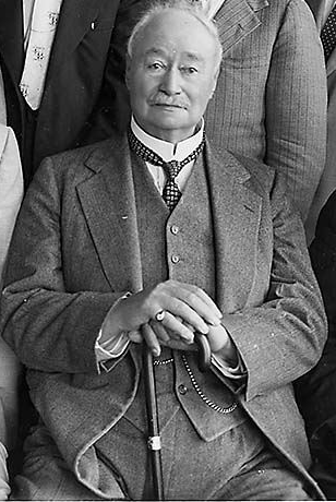 Sir Henry Pellatt and group at Casa Loma